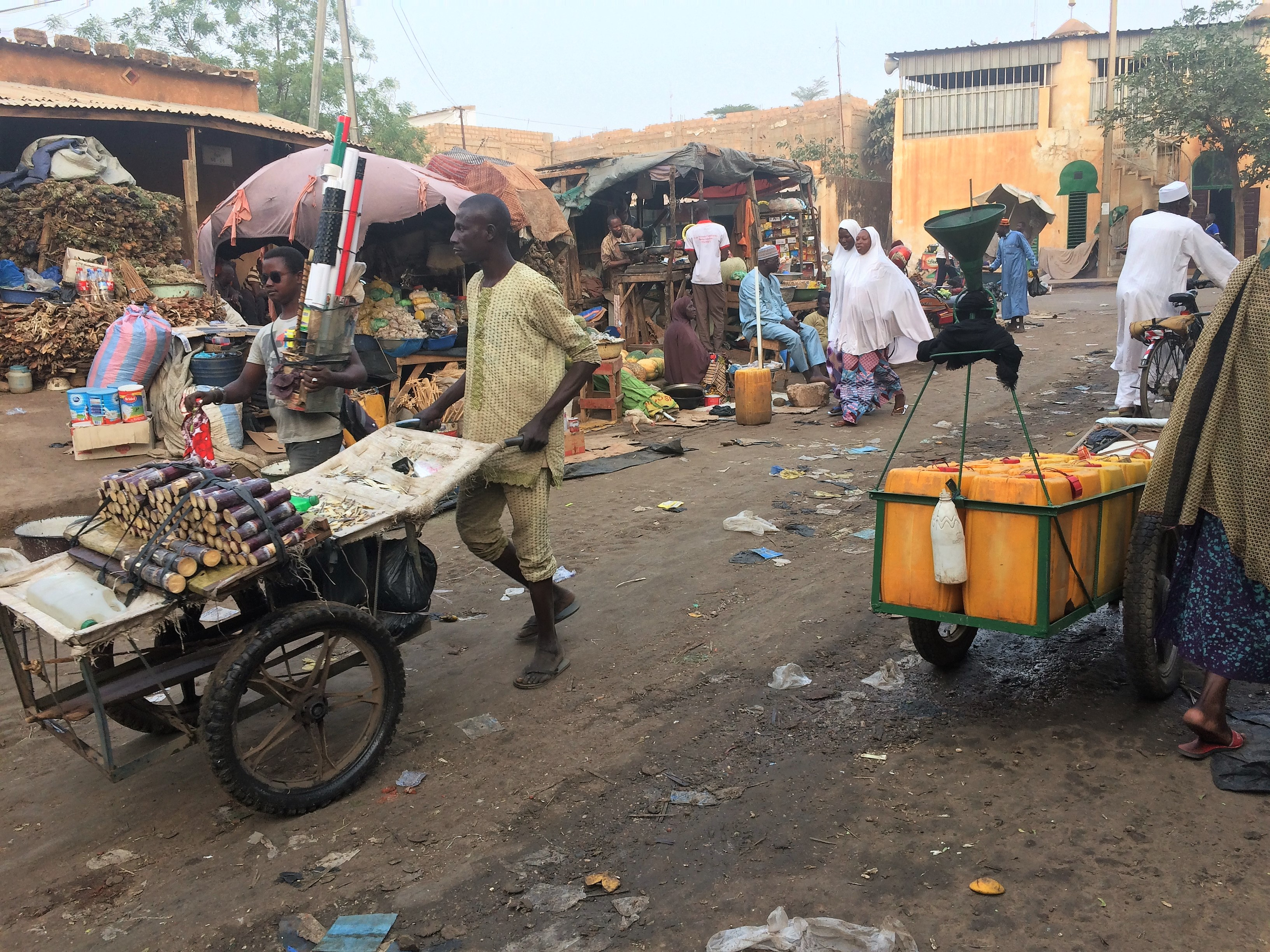 Scene in Rue NB-26 in Niamey (Petit Marché area, Niamey Bas neighborhood, Niger).